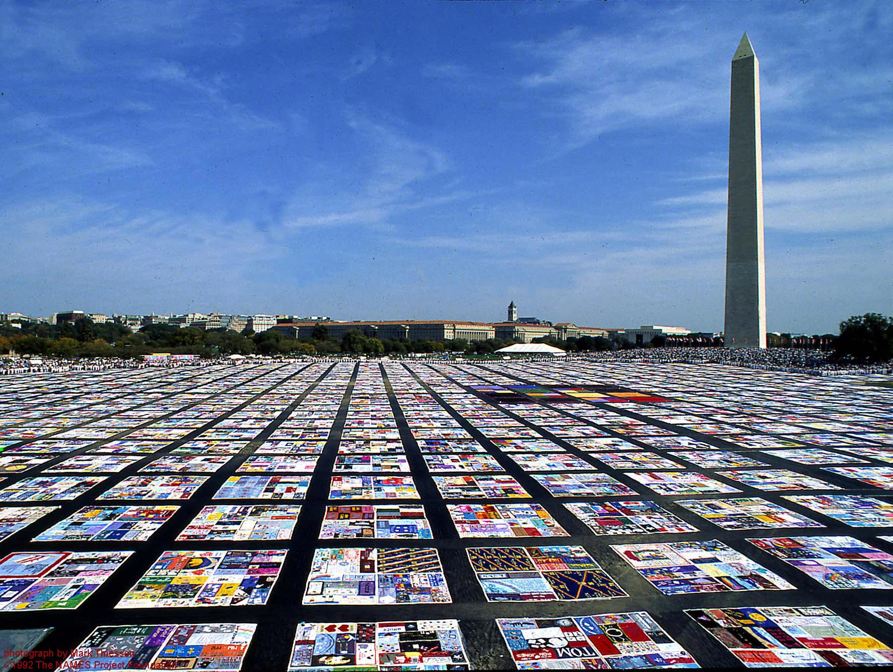 Picture of the AIDS quilt in front of the Washington Monument